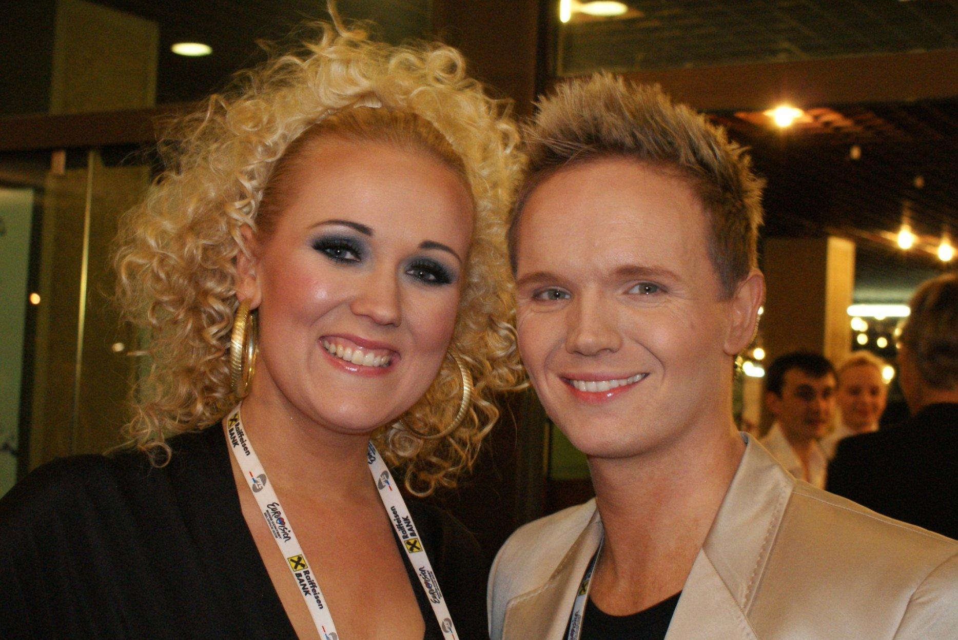 Island's entry in the Eurovision Song Contest - Belgrade 2008.